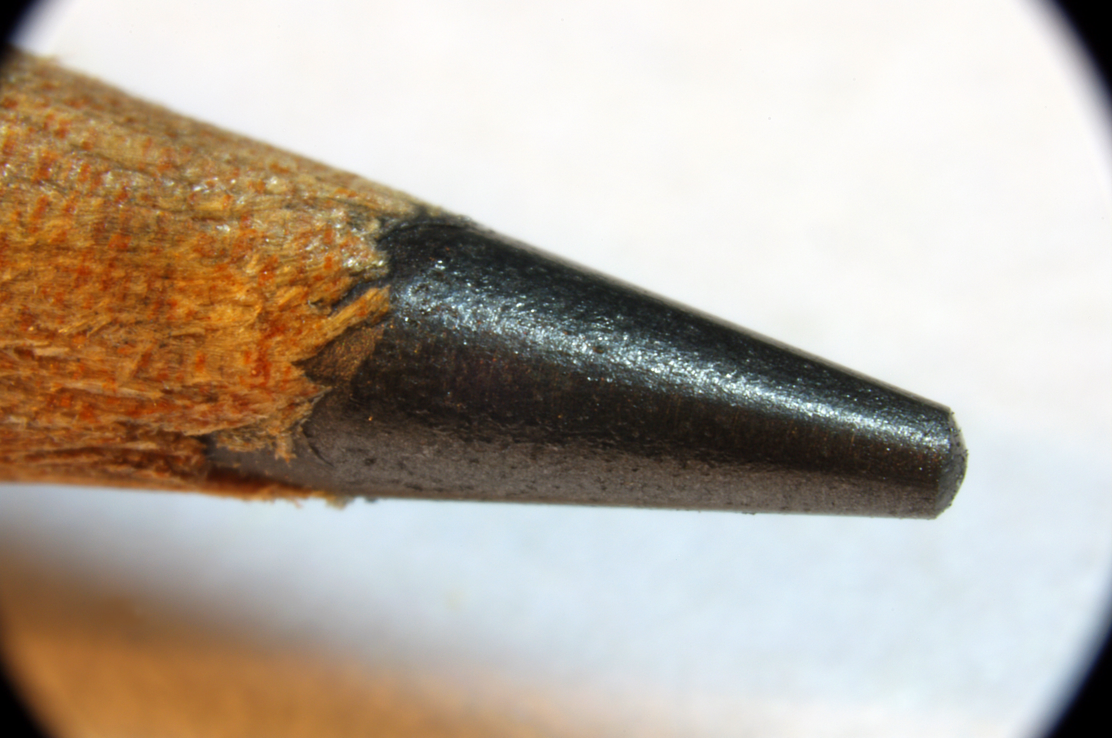 Non-cropped (but JPEG-downscaled) macro photo of a lead pencil tip, created with a macro lens Tamron SP AF 90 mm F/2.8 Di MACRO 1:1 and a wide angle lens smc Pentax-M 28 mm F/2.8 mounted in "reverse position". This combination (see photo links below) allows a magnification of 3.2:1 – but only with a tiny depth of field at a working distance of approx 4 cm. The shading of the corners is probably due to the fact that the reversed lens had a smaller filter diameter (49 mm) than the camera-mounted lens (55 mm). With an aperture of f3.5 in the macro and f22 in the reversed lens, the vignetting was the lowest (and the depth of field was the best; as shown here).